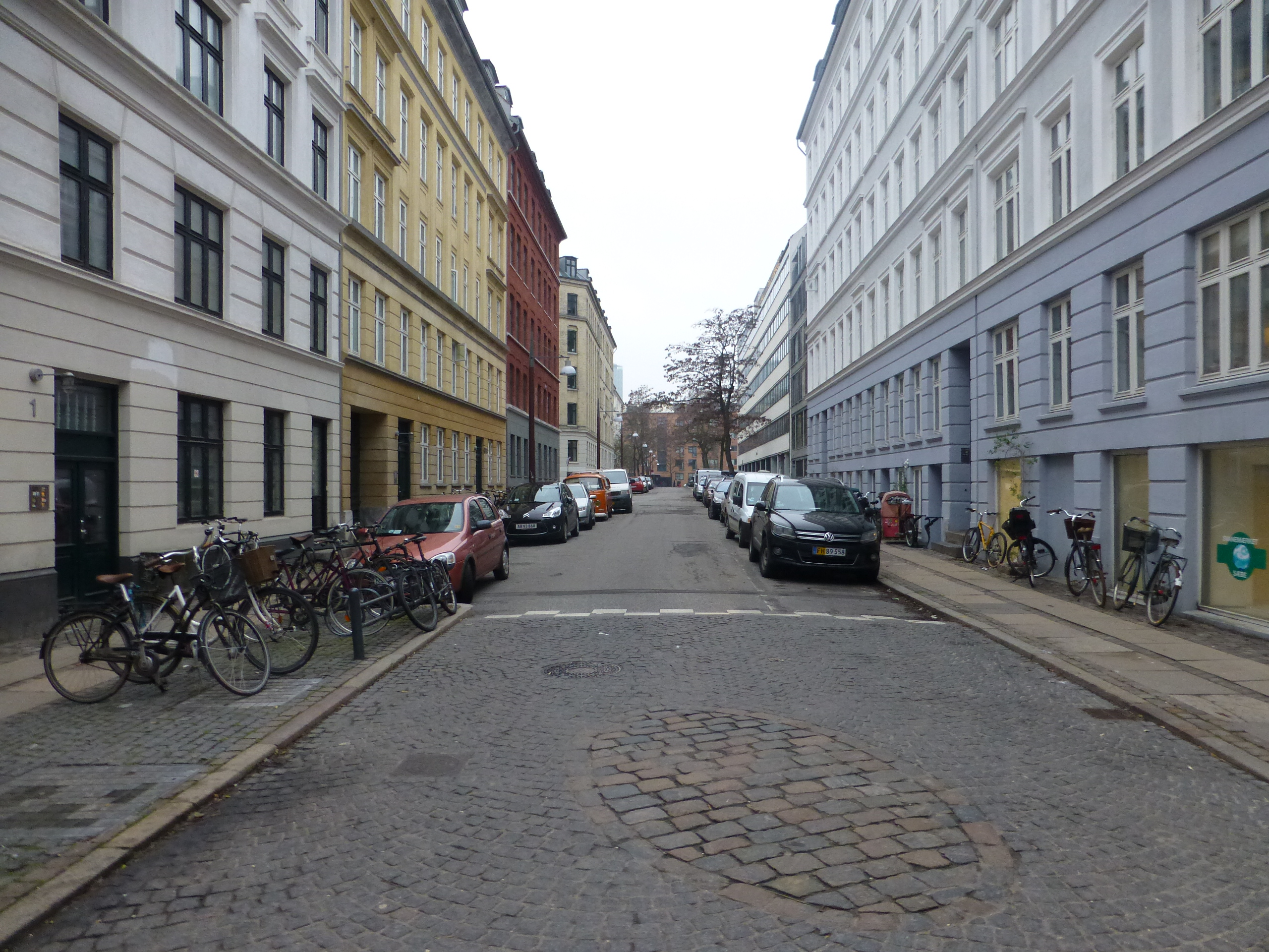 The street Tøndergade in Vesterbro in Copenhagen.